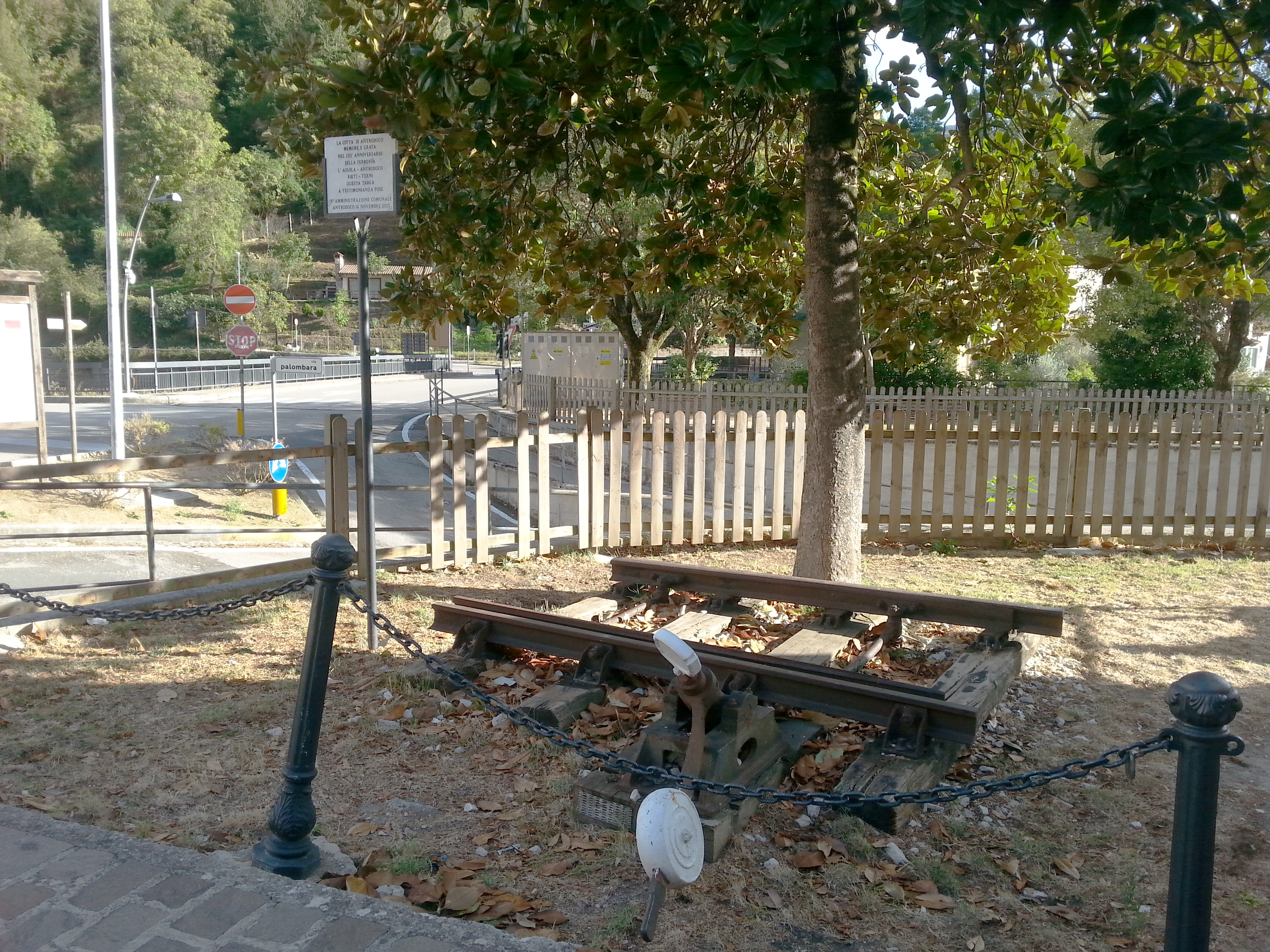 Antrodoco Centro railway stop (province of Rieti, central Italy), on the Terni-Rieti-L'Aquila-Sulmona line. Monument built on November 16, 2013 on the 130th anniversary of the inauguration of the railway.